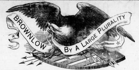 Illustration in the Jonesboro Herald and Tribune (of Jonesborough, Tennessee, United States) noting the victory of congressional candidate Walter P. Brownlow in the 1st district Republican primary of that year.